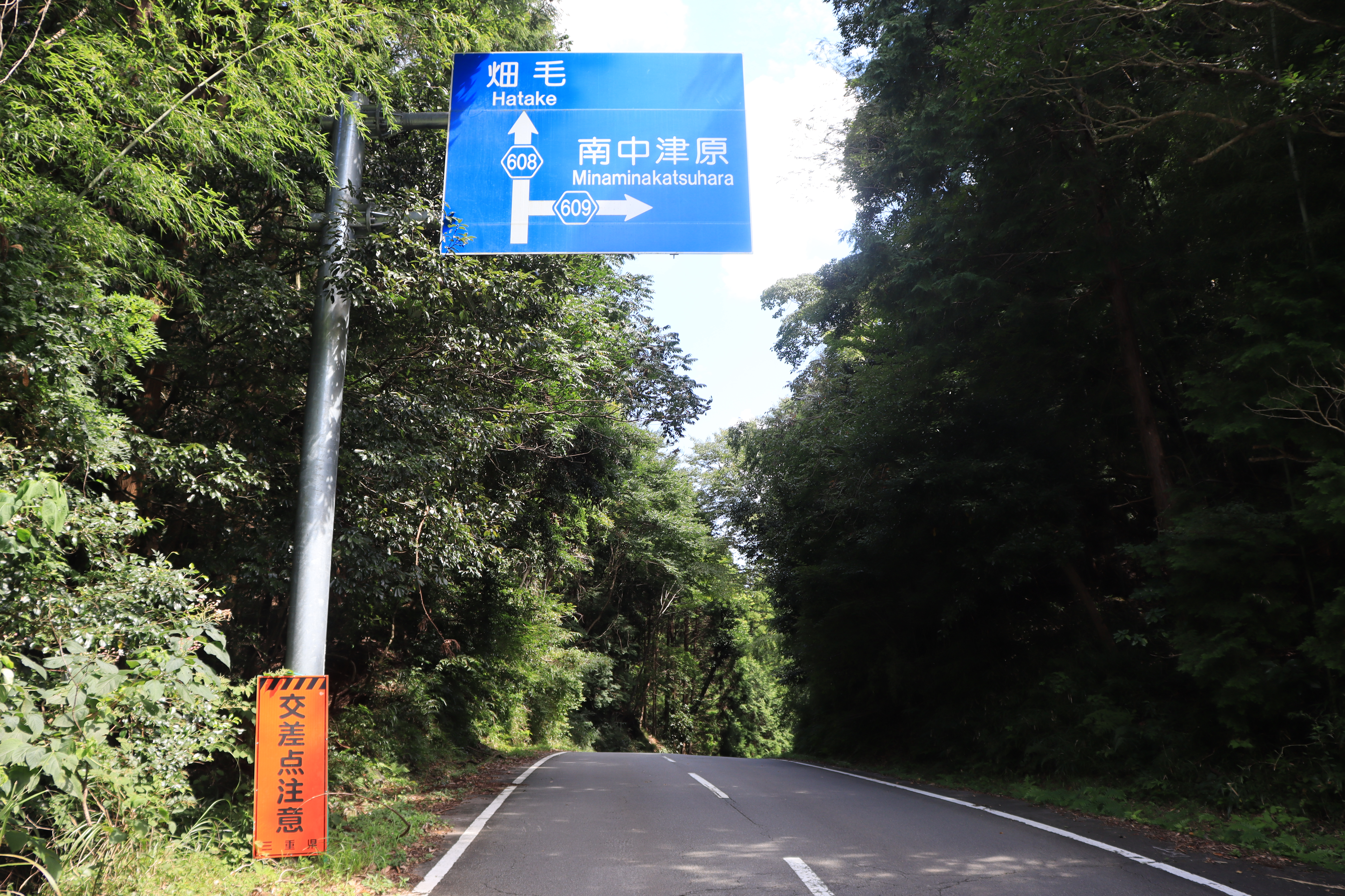 Mie Prefectural Road Route 608 and Mie Prefectural Road Route 609 in Higashikaino, Hokuseicho, Inabe, Mie Prefecture, Japan.